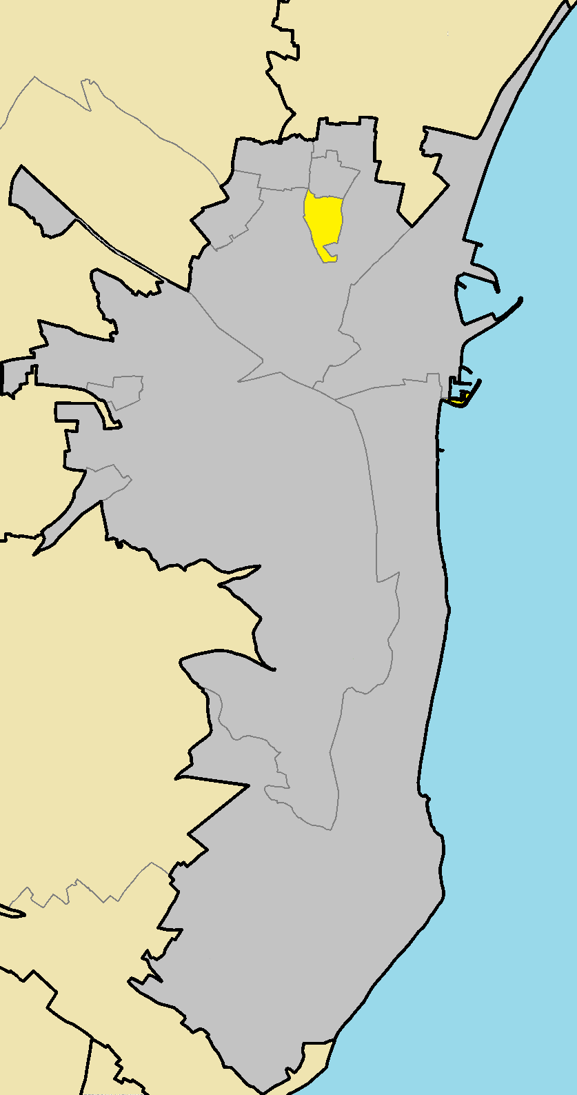 Agioi Anargyroi II in Larnaca Municipality.